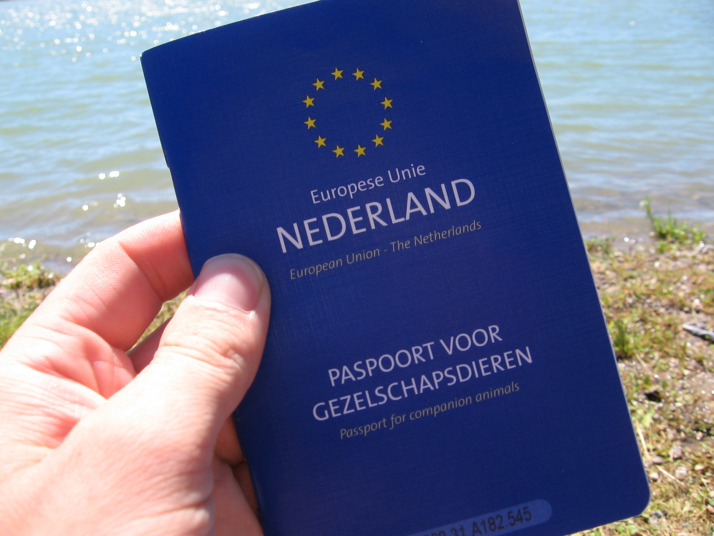 Europees huisdierenpaspoort / Passport for companion animals